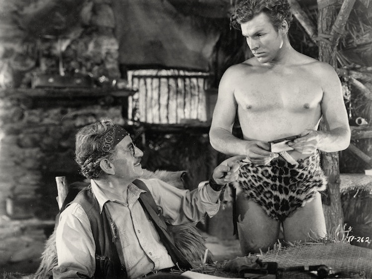 E. Alyn Warren (left) & Buster Crabbe in Tarzan the Fearless - publicity still